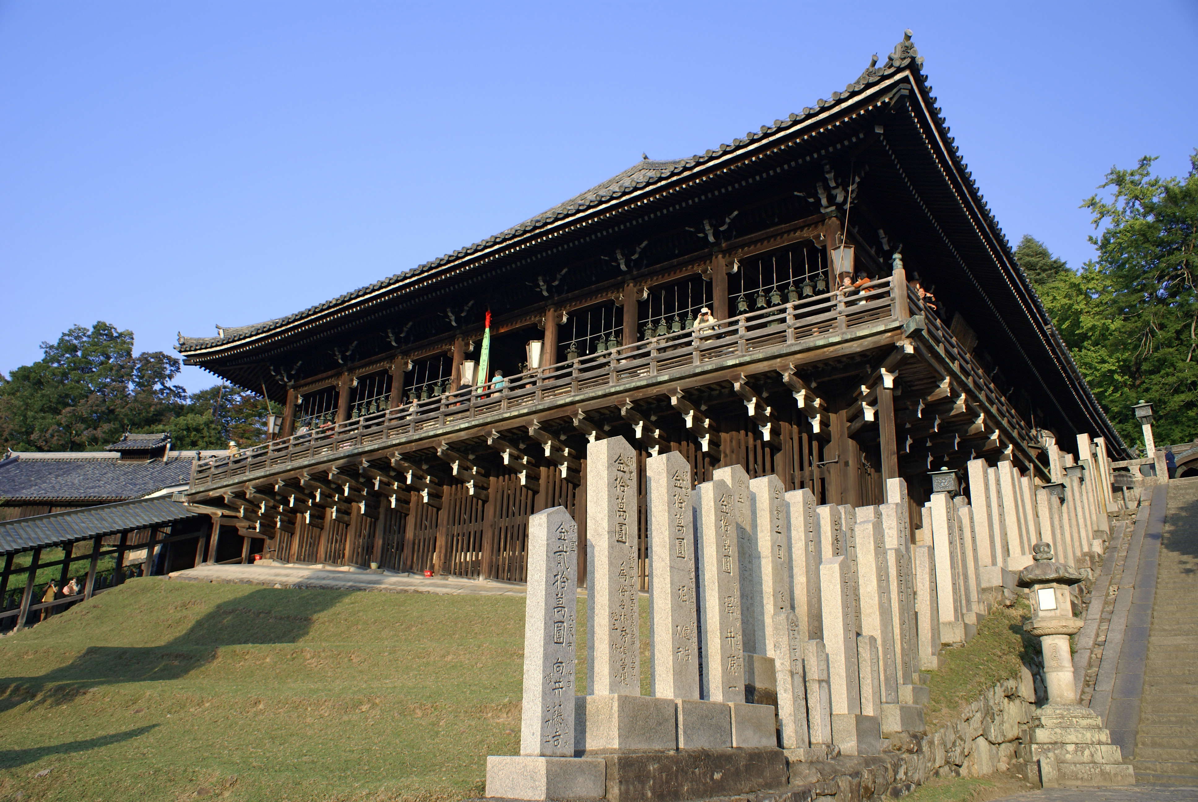 Nigatsudo of Tōdai-ji in Nara, Nara prefecture, Japan